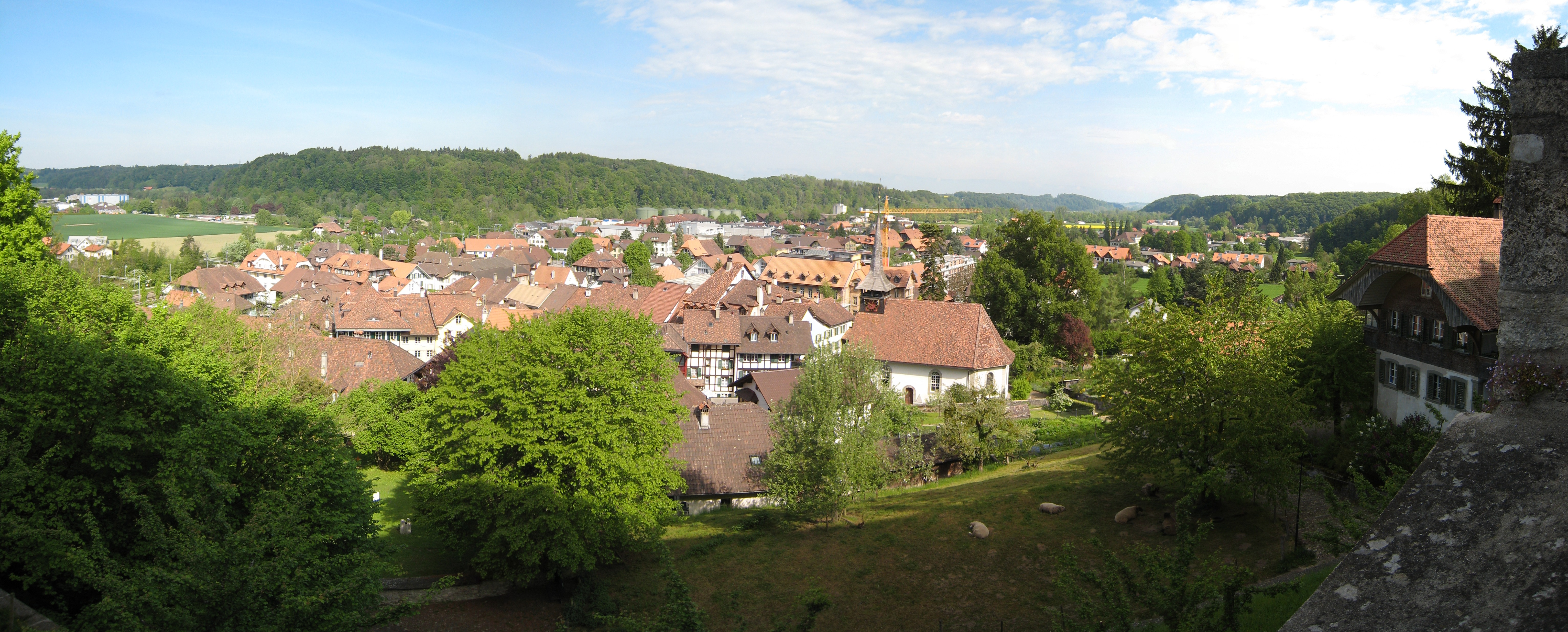 Panoramic view of Laupen, Canton of Berne, Switzerland.